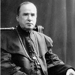 Kluczynski - Catholic bishop of Mohilev (1910-1914)